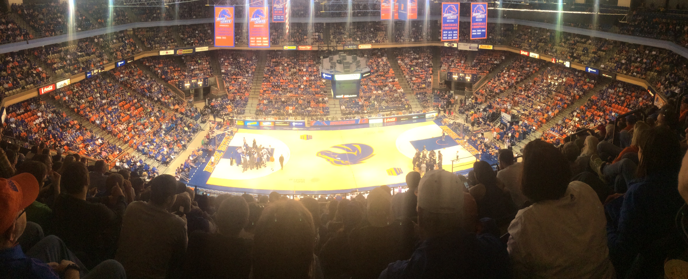 Interior of Taco Bell Arena during a men's basketball game between Boise State and San Diego State on February 8, 2015 with an attendance of 10,511.